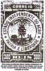 Stamp of the extinct country Republic of Acre.